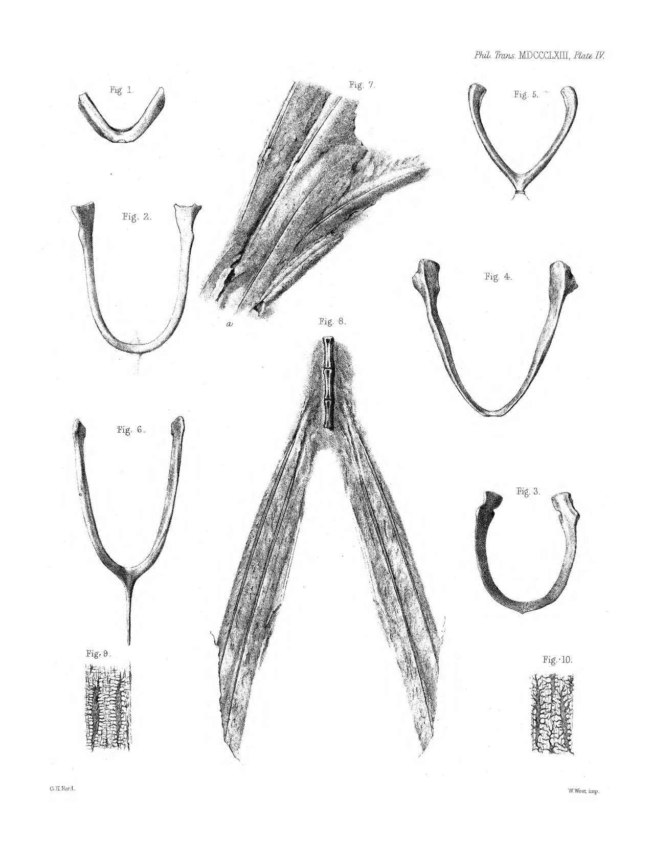 Sketches of elements from the London specimen of Archaeopteryx and comparisons with other animals from Richard Owen's original 1862 description of Archaeopteryx (Plate IV). Fig. 1. Portion of the furculum of Archeopteryx. Fig. 2. Furculum of a Raven (Corvus corax). Fig. 3. Furculum of a Falcon (Falco peregrinus). Fig. 4. Furculum of an Owl (Nyctea nivea = Bubo scandiacus). Fig. 5. Furculum of a Stork (Ciconia argala = Leptoptilos). Fig. 6. Furculum of a Curassow (Crax alector). Fig. 7. Impressions of the basal part of two 'primaries' and of four entire 'under-coverts' of the left wing of Archaeopteryx. Fig. 8. Impressions of the caudal plumes of the 15th and 16th caudal vertebrae of Archaeopteryx. Fig. 9. Two bone-cells or lacunae, femur of Dinornis. Fig. 10. Two bone-cells or lacunae, wing-bone of Pterodactylus.